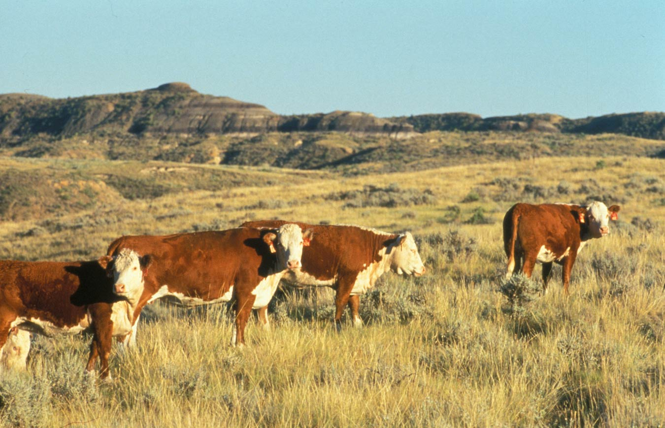 Hereford cattle from Image Number K5685-1 Hereford cattle on ARS' Fort Keogh Livestock and Range Research Laboratory near Miles City, Montana. Photo by Keith Weller